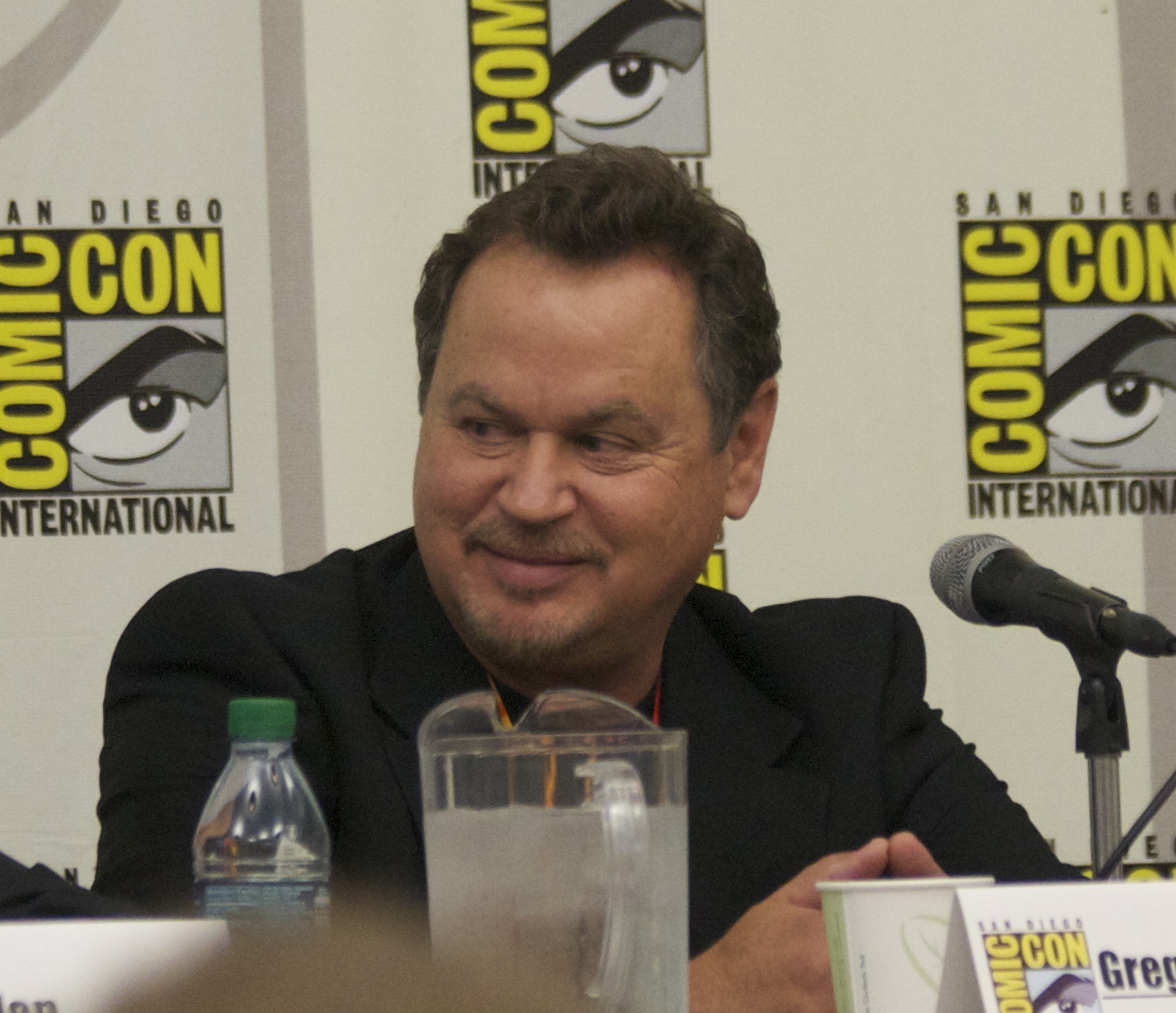 Gregg Berger on a panel at the 2012 Comic-Con International in San Diego.